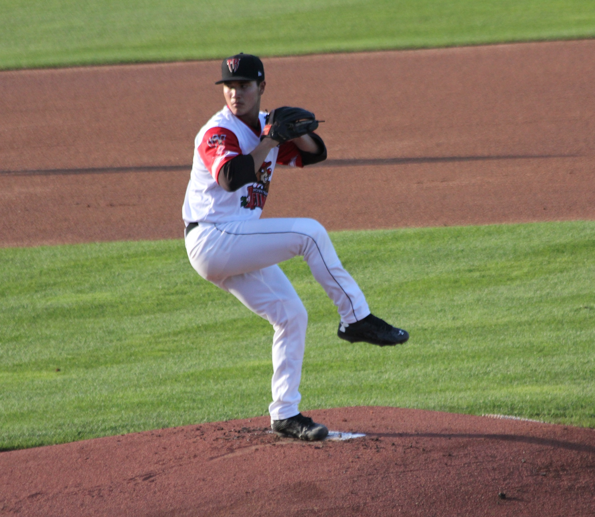 Kodi Medeiros pitching for the Wisconsin Timber Rattlers in 2015. It was Christmas in July that day so the team was dubbed the North Pole Reindeer and wore a commemorative jersey.